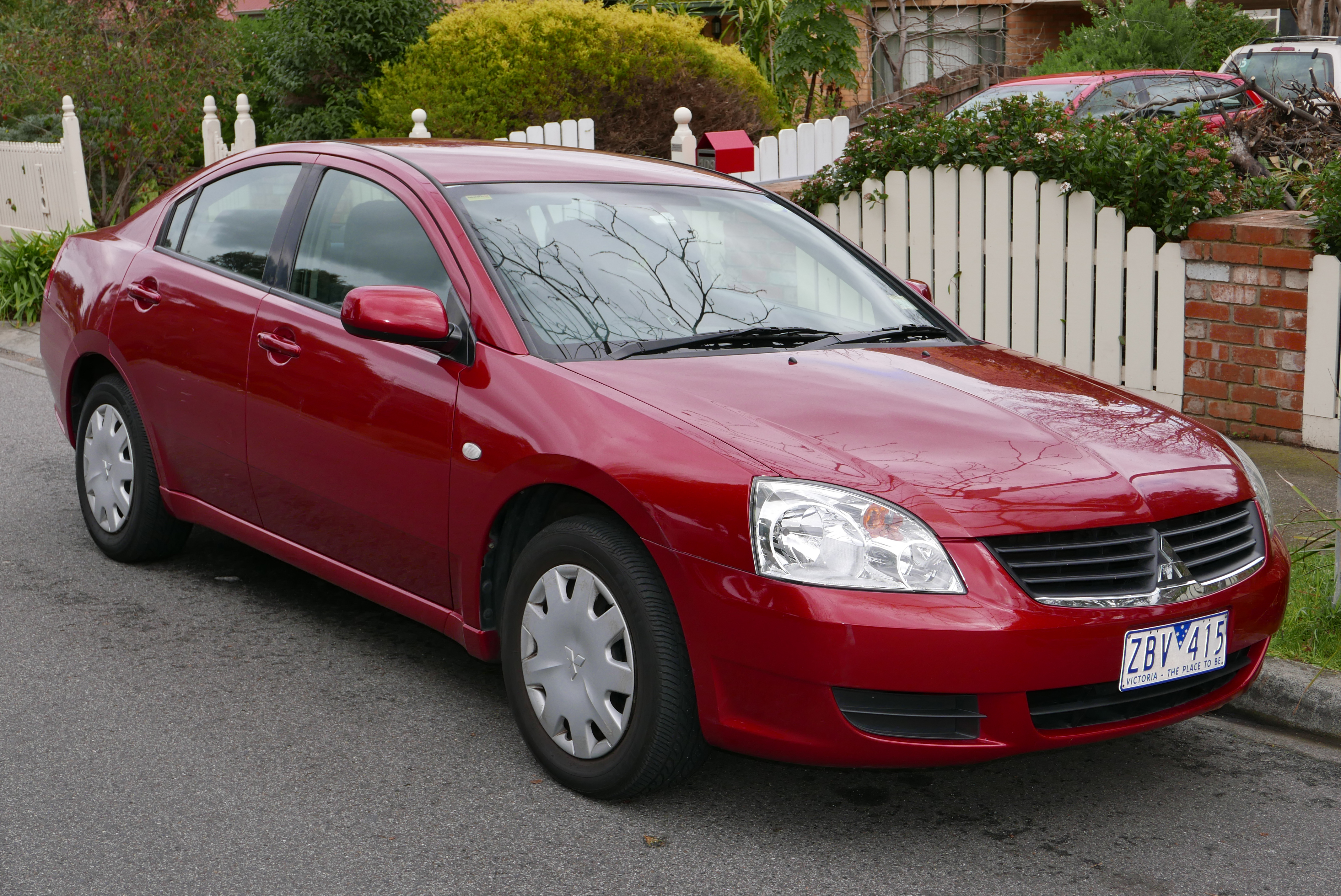 2006 Mitsubishi 380 (DB) sedan. Photographed in Ivanhoe, Victoria, Australia. Vehicle registration enquiry resultsJurisdictionVictoriaRegistrationZBV415Chassis code6MMDB4D416T010215Engine code6G75SH3339Compliance date2006-02Year of manufacture2006